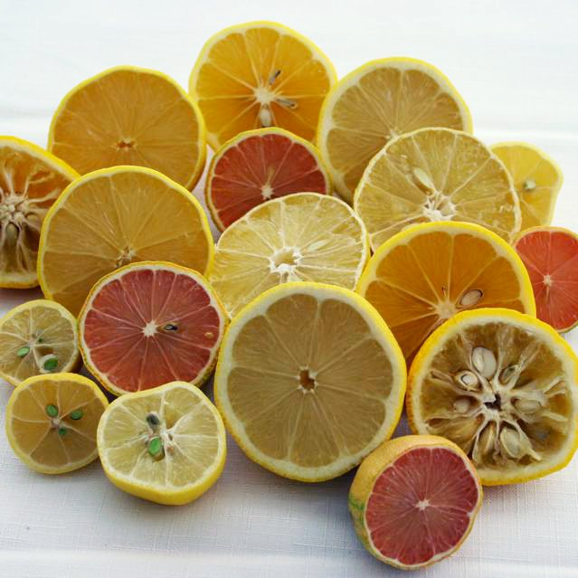 Cross sections of Eureka, Meyer, Yuzu, and Pink Lemons, and 1 sweet Lime